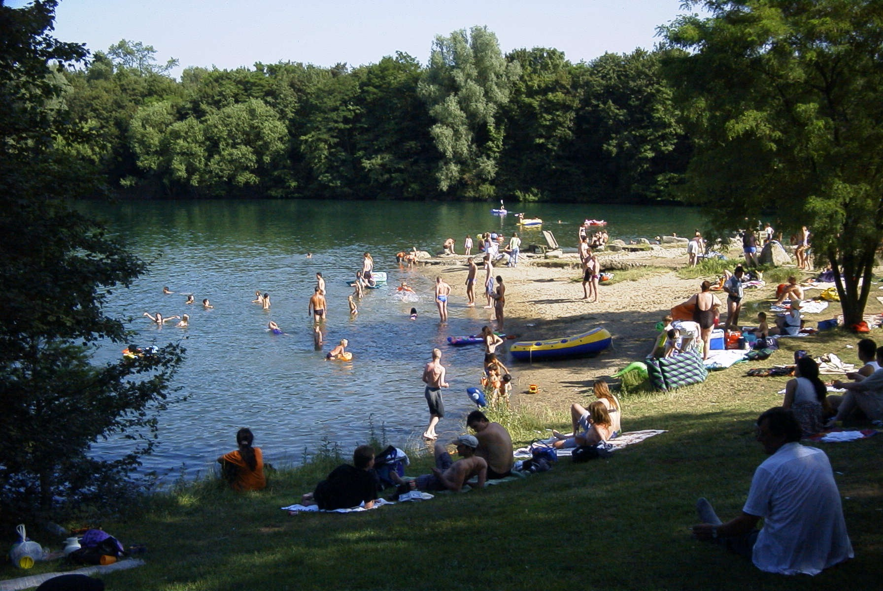 Bathers at the „Uettelsheimer See“ in Duisburg in the evening hours.